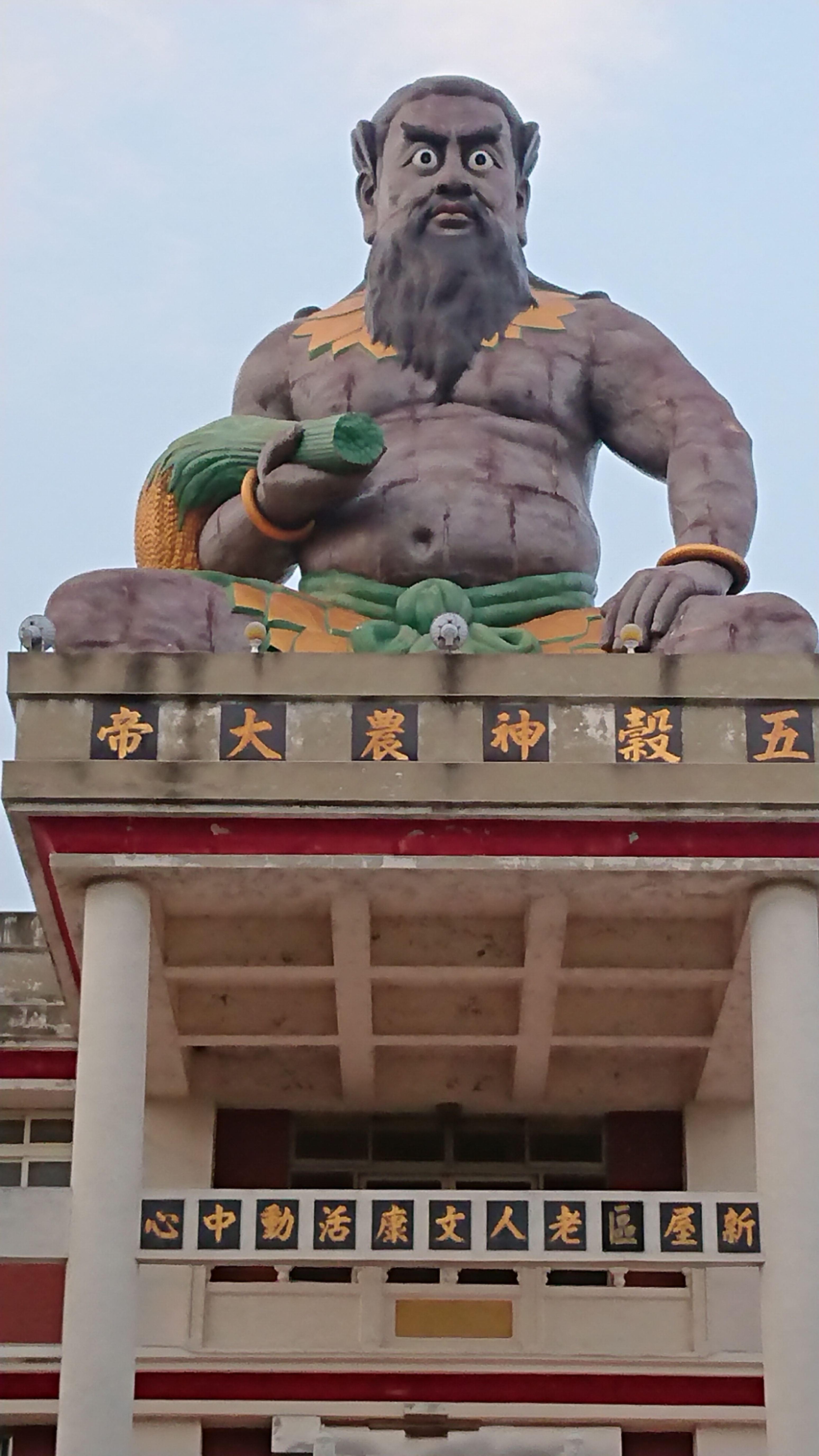 Bronze statue